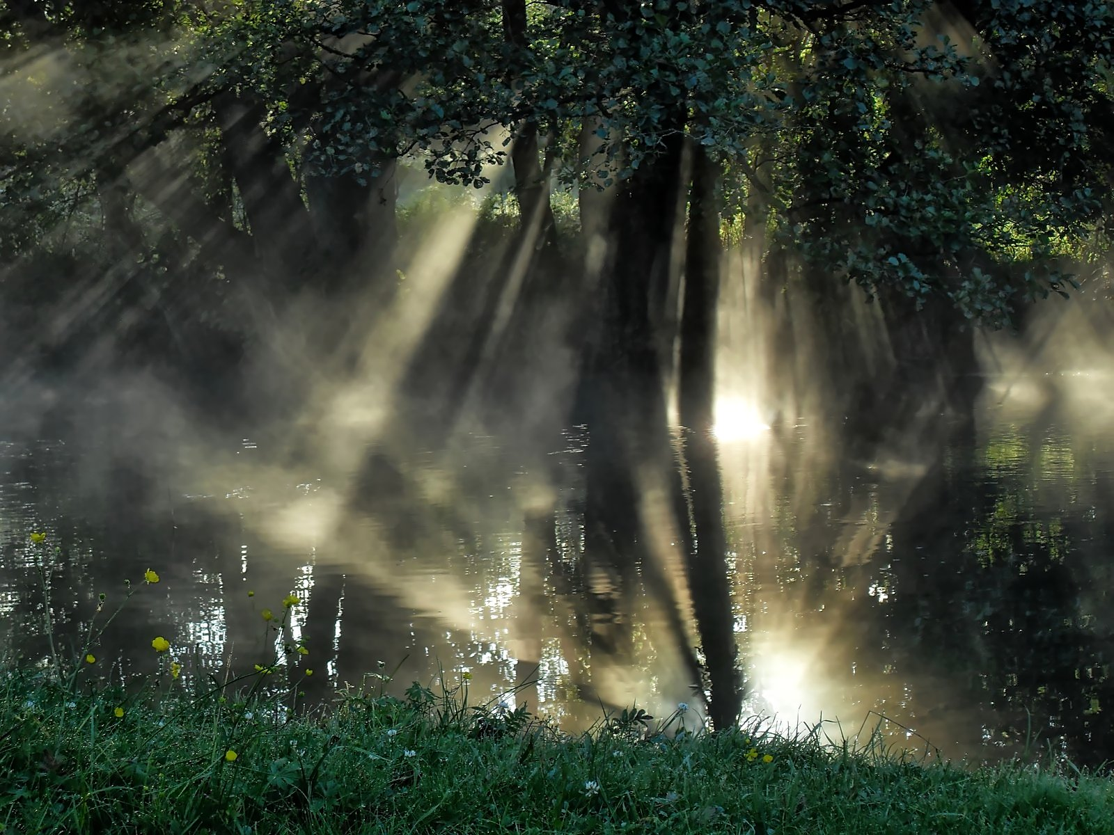 Rays of sun in the fog